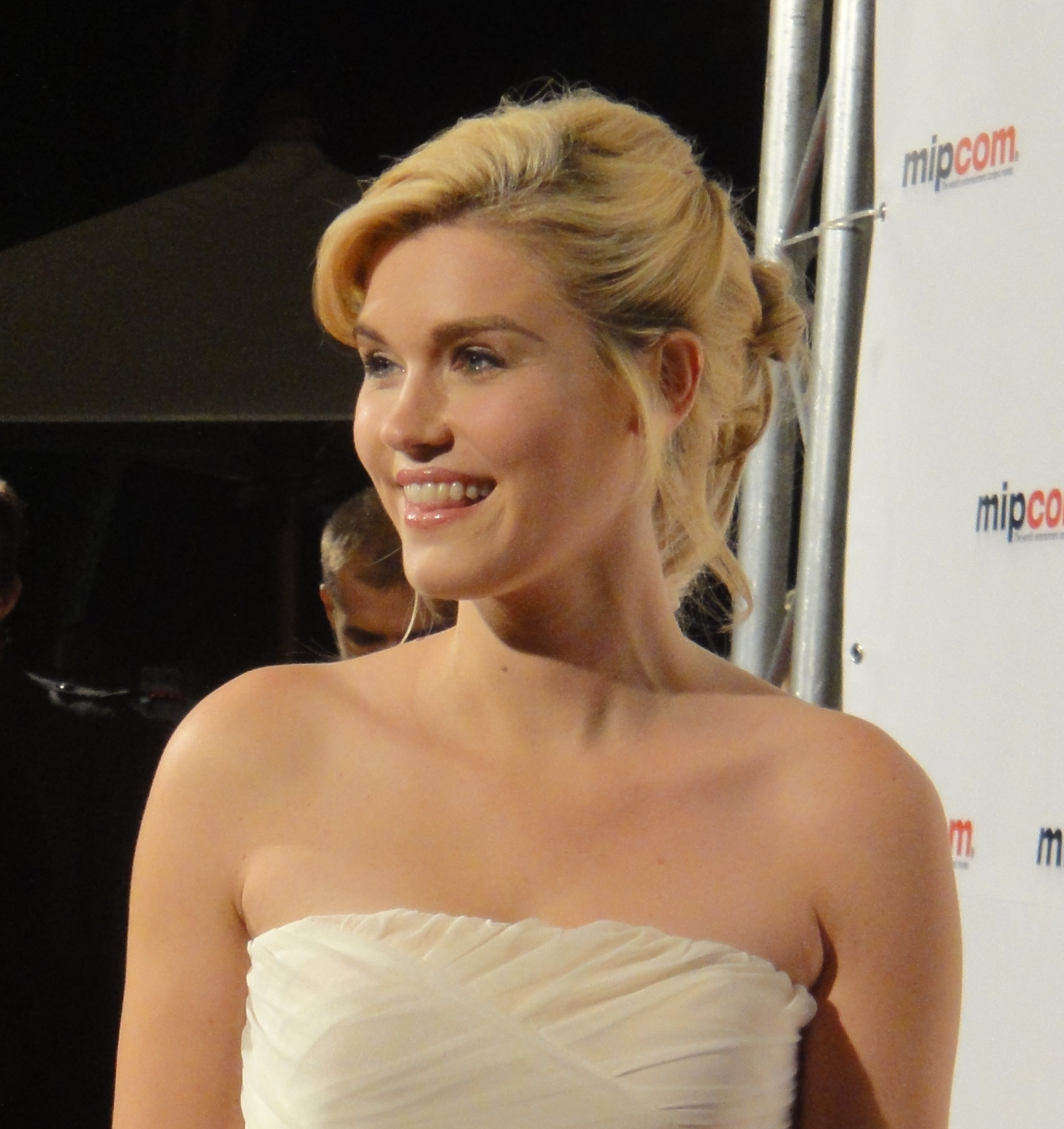 Emily Rose